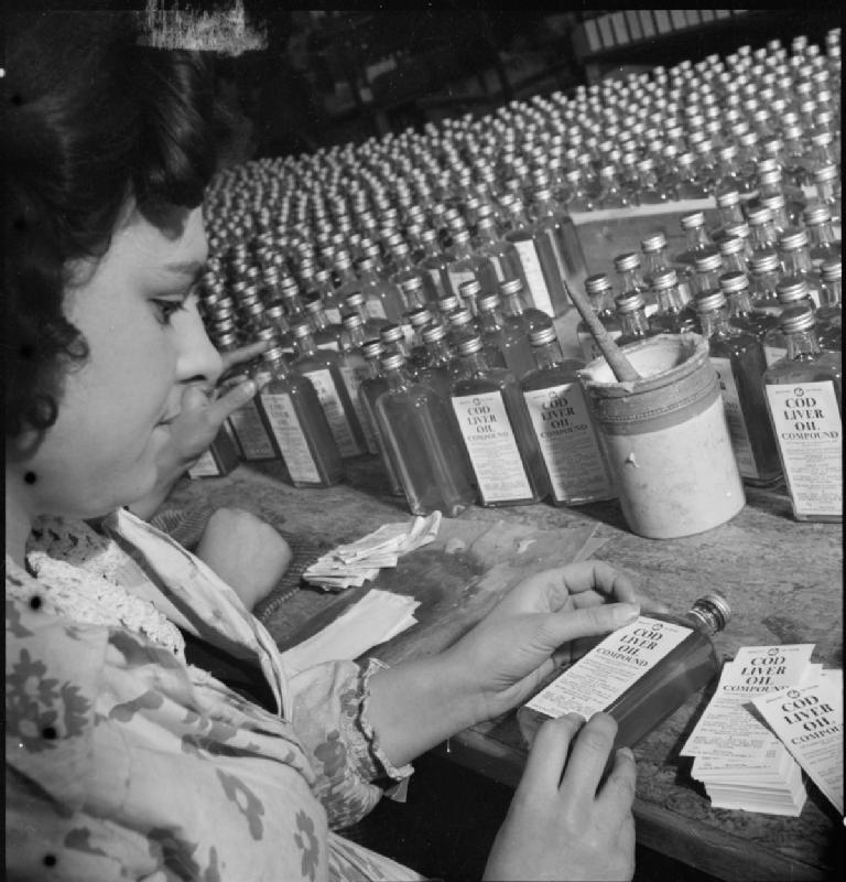 A Chemist Carries On- the work of Allen and Hanburys in the Production of Cod Liver Oil, 1942 A female worker pastes labels onto bottles of cod liver oil compound in the packing department of Allen and Hanburys factory, probably in the Bethnal Green/Shoreditch area of London. The tub of glue and brush and a pile of labels can be seen on the table in front of rows of bottles.